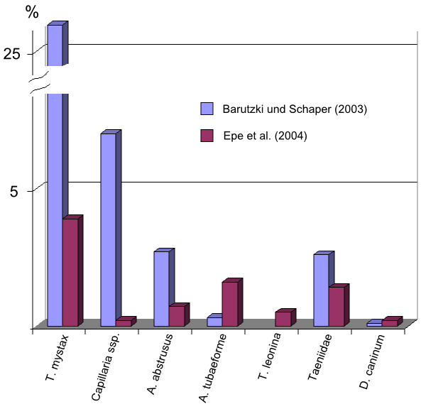 Prävalence of gastrointestinal helminths in Germany